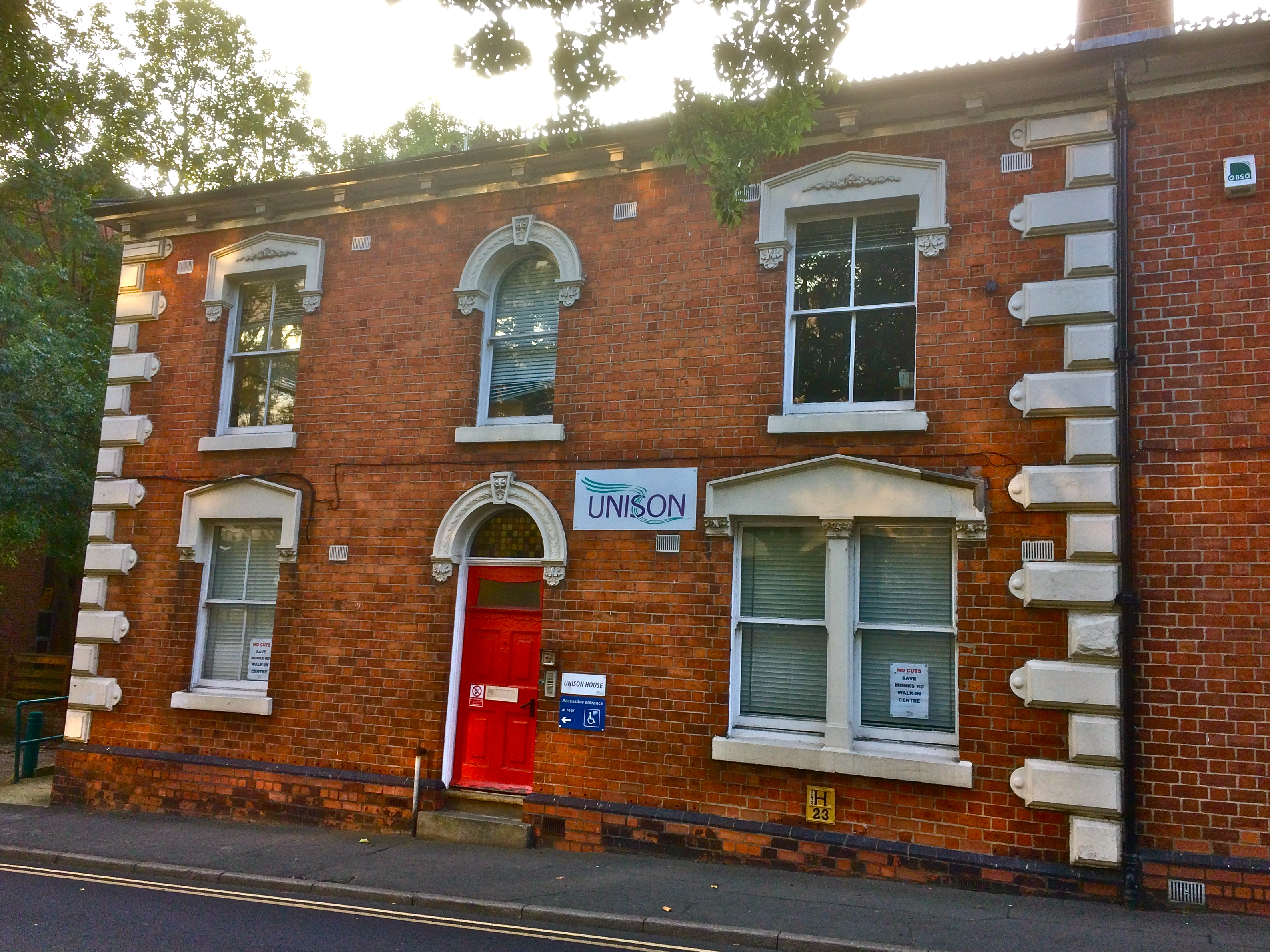 34 Orchard Street, Lincoln